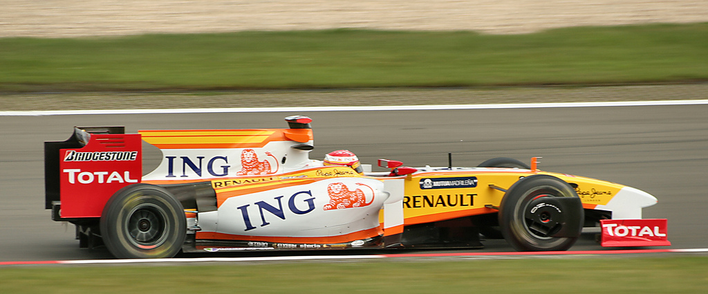 Fernando Alonso driving for Renault F1 at the 2009 German Grand Prix.